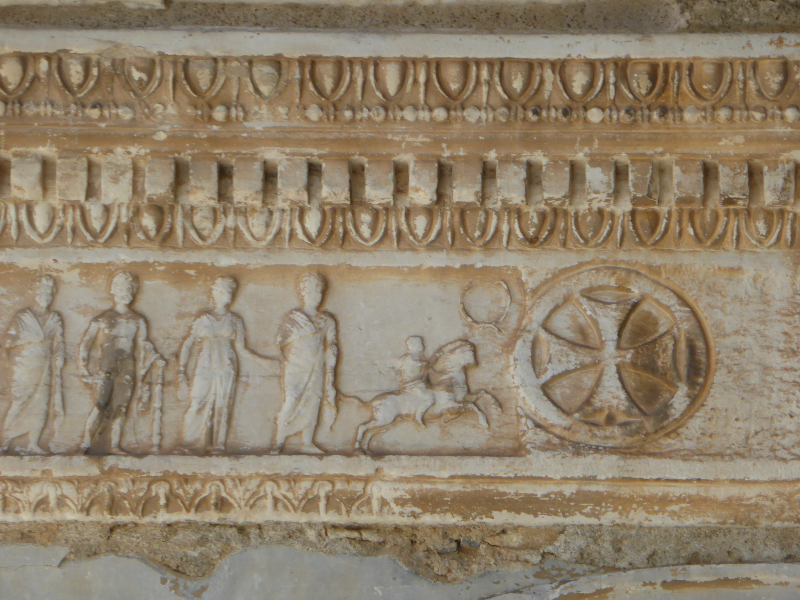 Panagia Gorgepikoos, Athens, west facade; detail of a spoil depicting the Attic Calendar